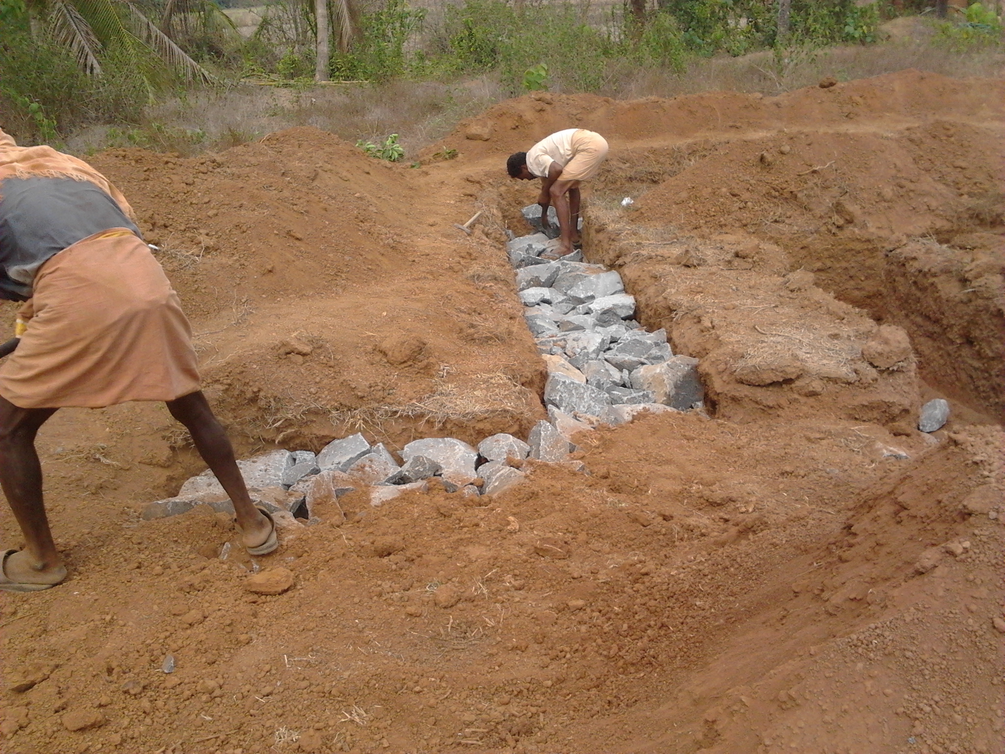 Random rubble masonry